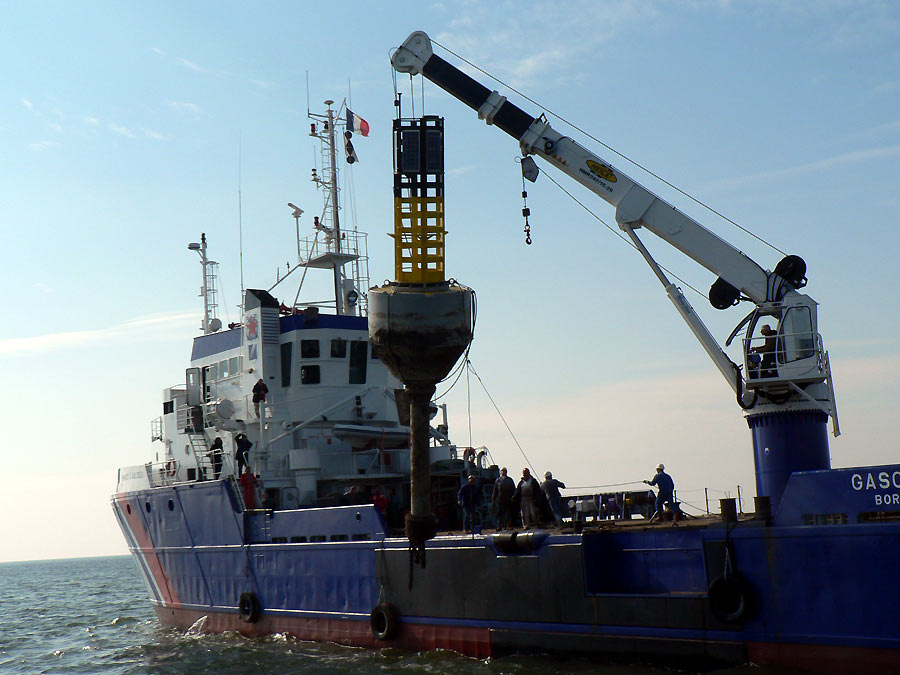 The buoy tender Gascogne during its sea trials.